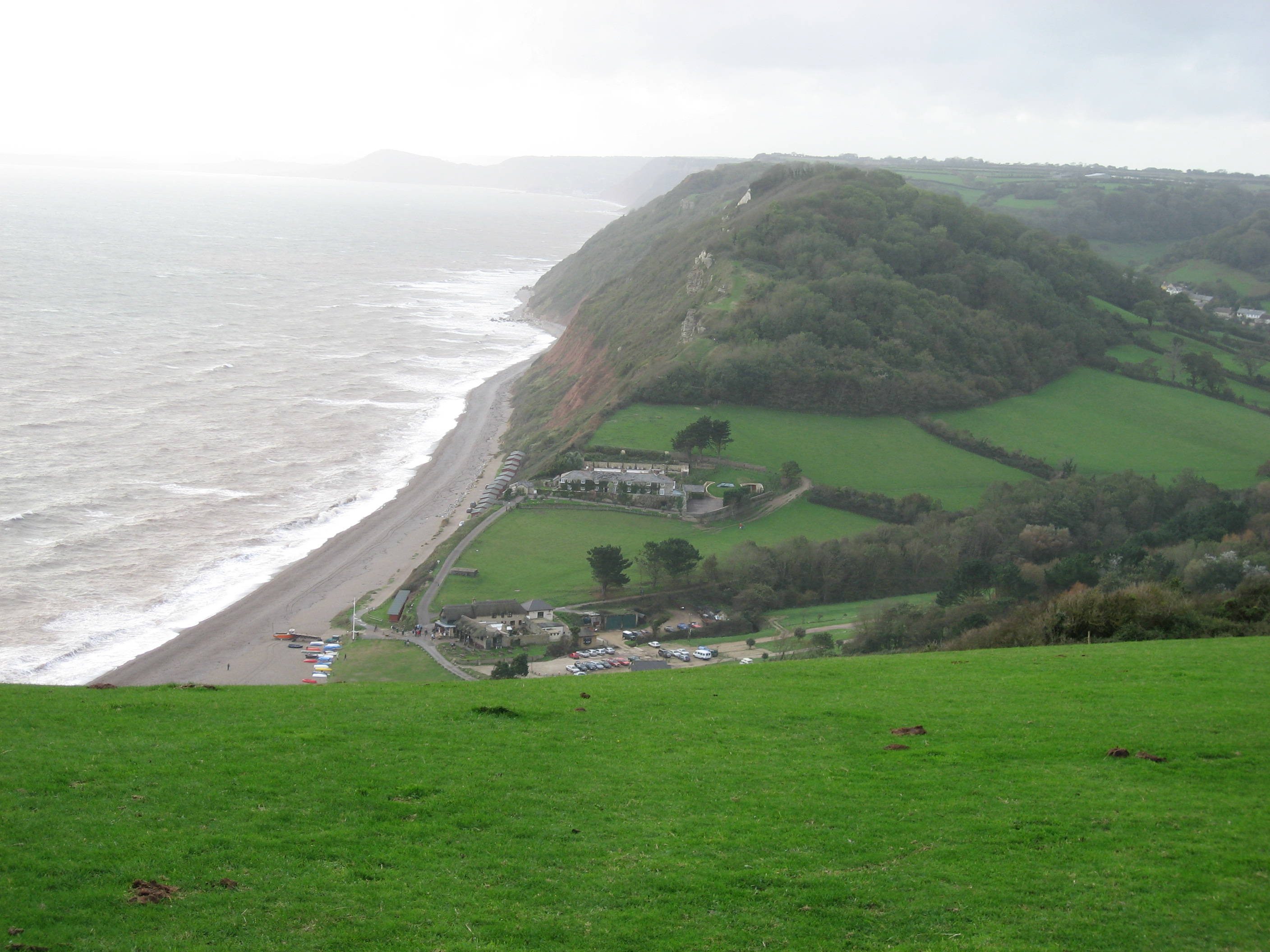 View over Branscombe Mouth, the beach at the village of Branscombe, Devon, from the East Cliff National Trust property